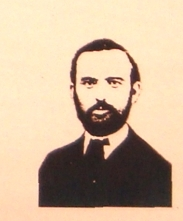 stefao tempia